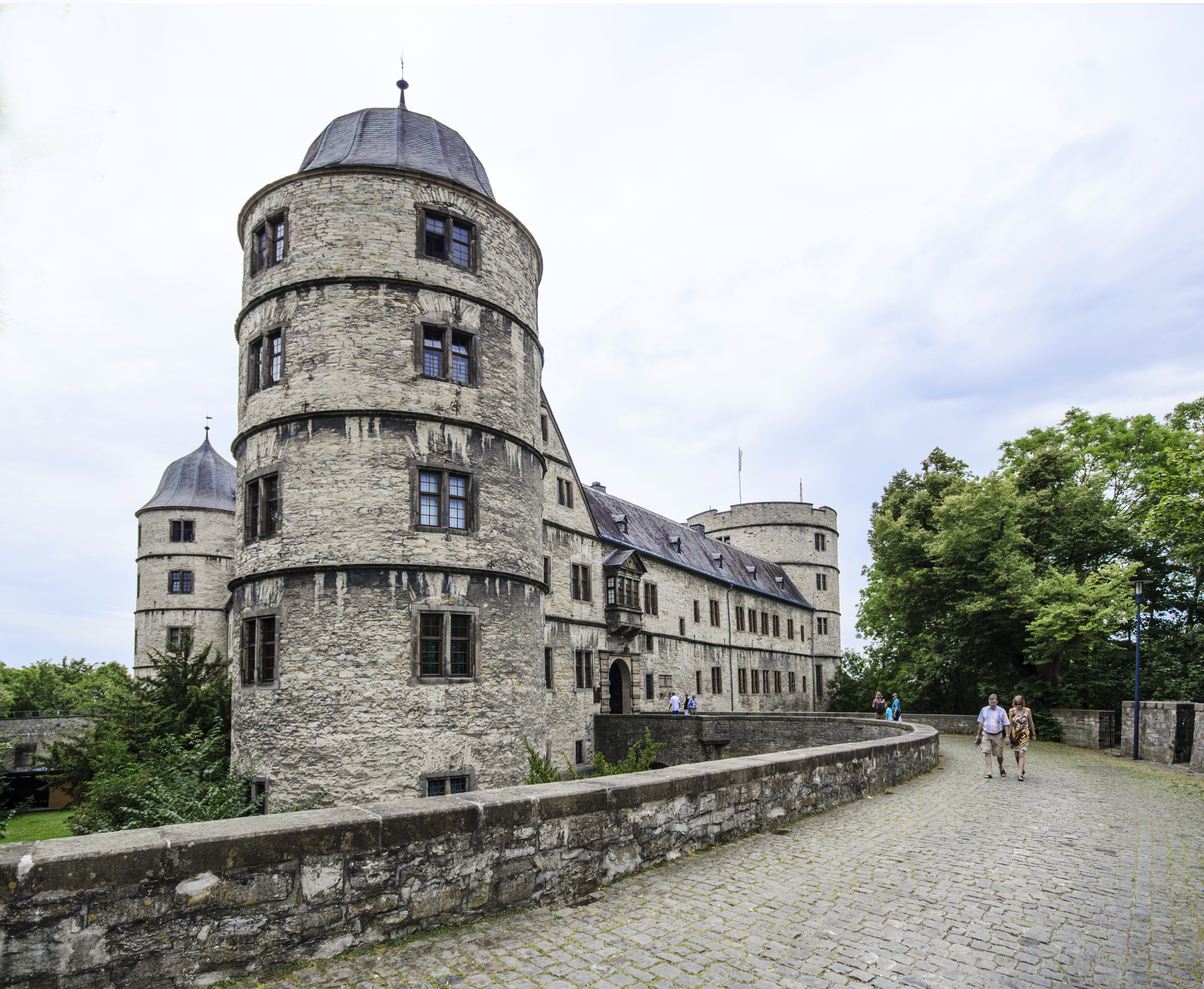 Wewelsburg Castle was built between 1603 and 1609 in Weser Renaissance style as a supplementary residence for the Prince Bishops of Paderborn. The triangular castle, which is located in the village of Wewelsburg (Büren) in the district of Paderborn, stands high on a rock overlooking the Alme Valley. See more under Address: Kreismuseum Wewelsburg Burgwall 19 33142 Büren-Wewelsburg This is a photograph of an architectural monument. /2